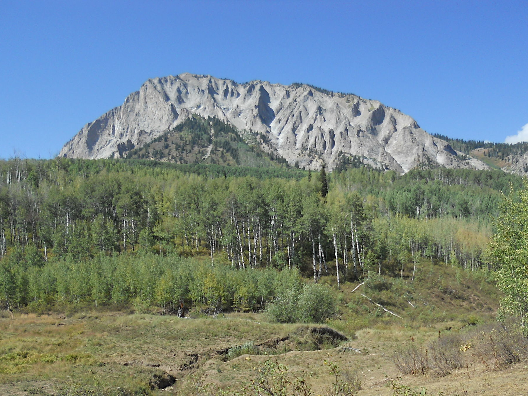 Marcellina Mountain as viewed from the southeast. This 11,353-foot (3,460 m) peak is located in the Raggeds Wilderness of Gunnison National Forest. This image is cropped from the original.